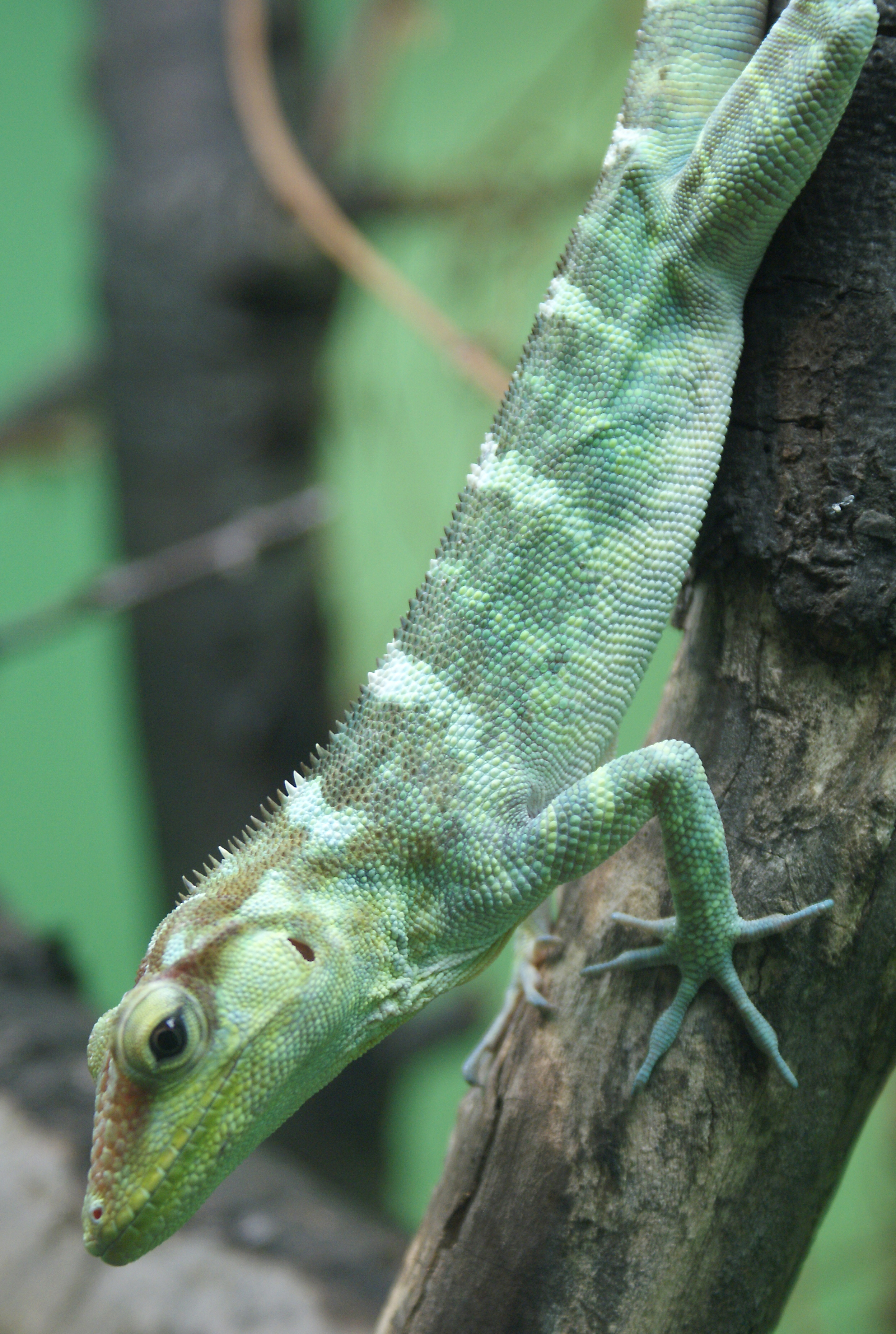 Haitian Green Anole or Giant Anole (Anolis ricordi)